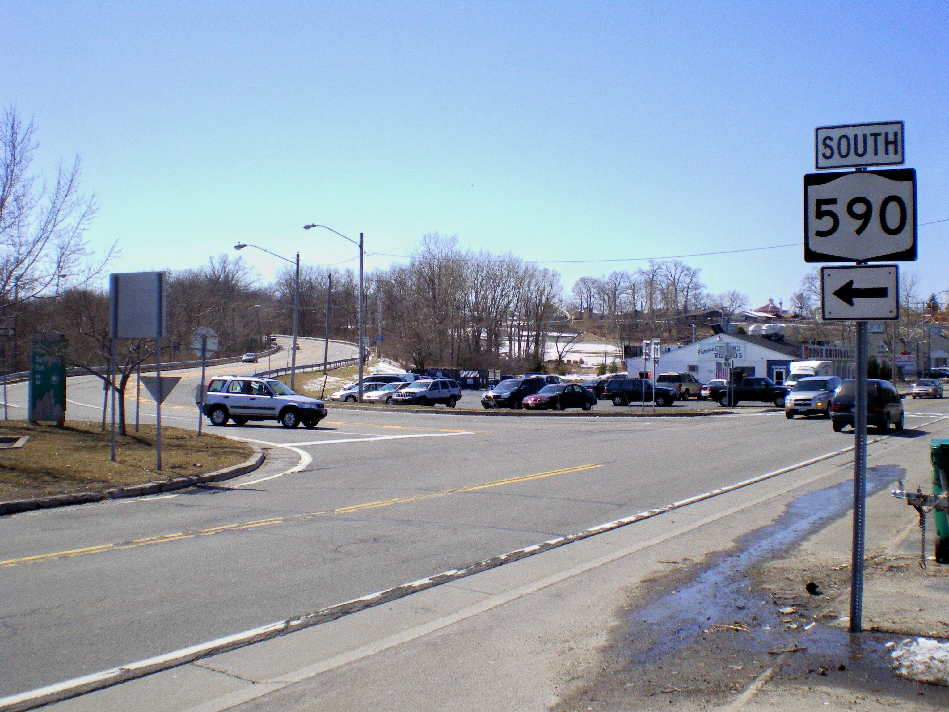 Northern terminus of New York State Route 590 in Irondequoit